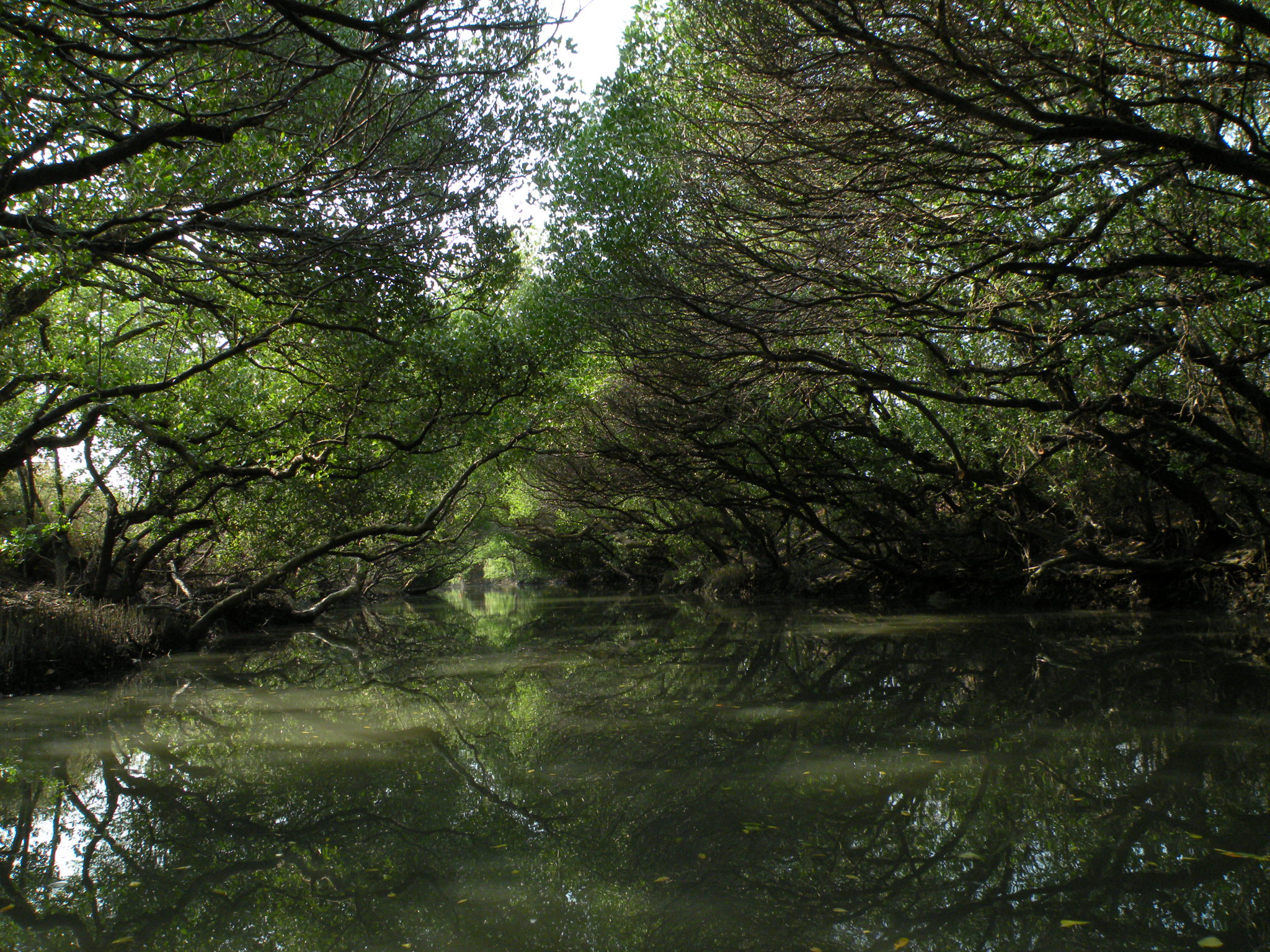 he green tunnel of mangrove in Sihchao(四草), Tainan, Taiwan; in the area of planningTaijiang National Park.